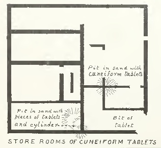 the royal archive in amarna („the place of the records of the palace of the king“), also Petrie House Nr. 19, where the famous cuneiform tablets (amarna letters) where found.